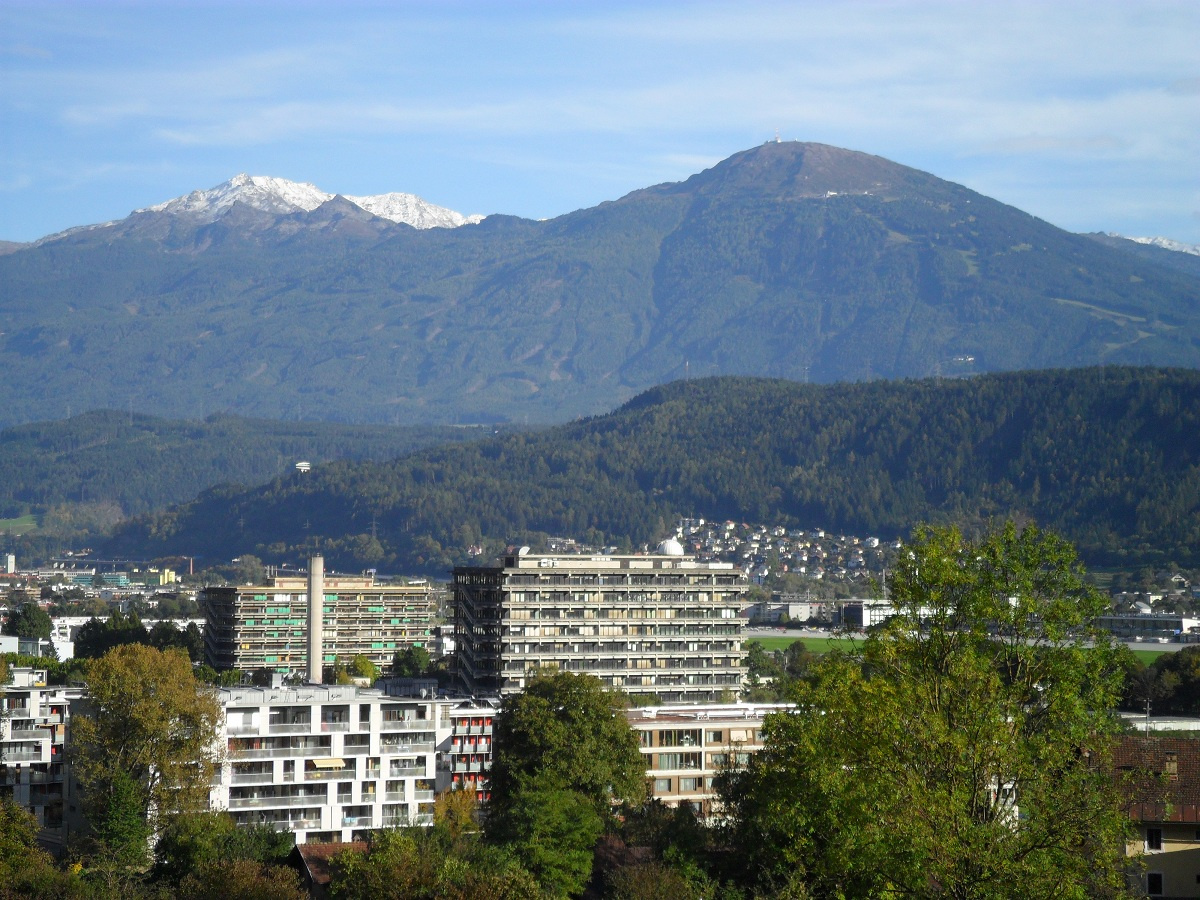 The tallest building with a telescope dome on the roof is Victor Franz Hess Haus where Institute of Astro- and Particle Physics, Physics and some other departments are situated. Second tallest building is the Biology faculty.